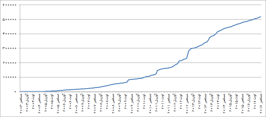 Number of articles in Persian Wikipedia (Dec 2003 - Dec 2016)